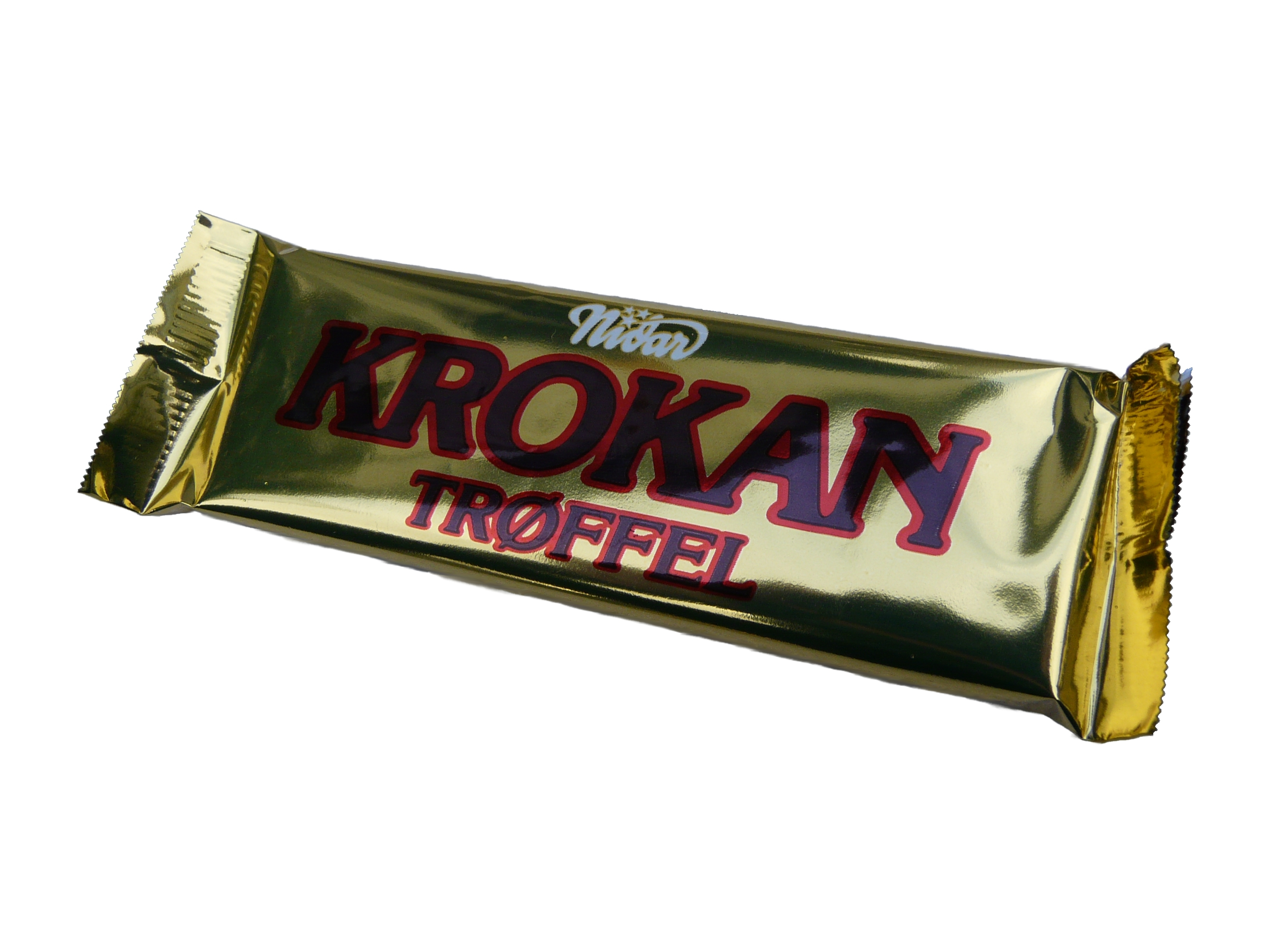 Image of a "Krokantroeffel".